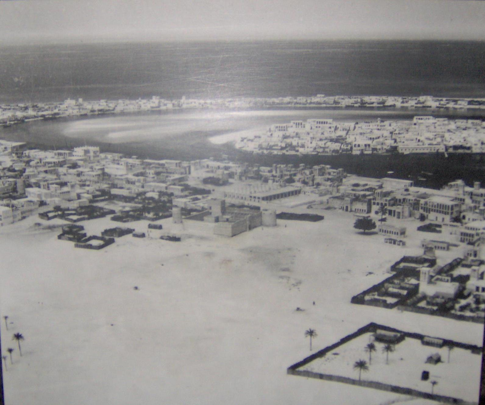 I took this photograph at the Dubai Museum, in May 2005